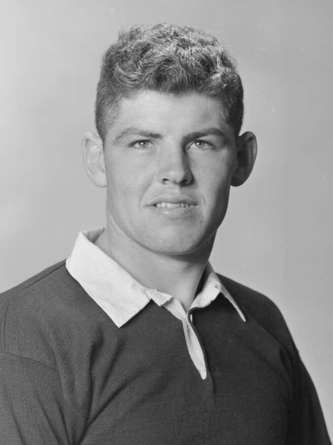 A E Smith, All Black trialist